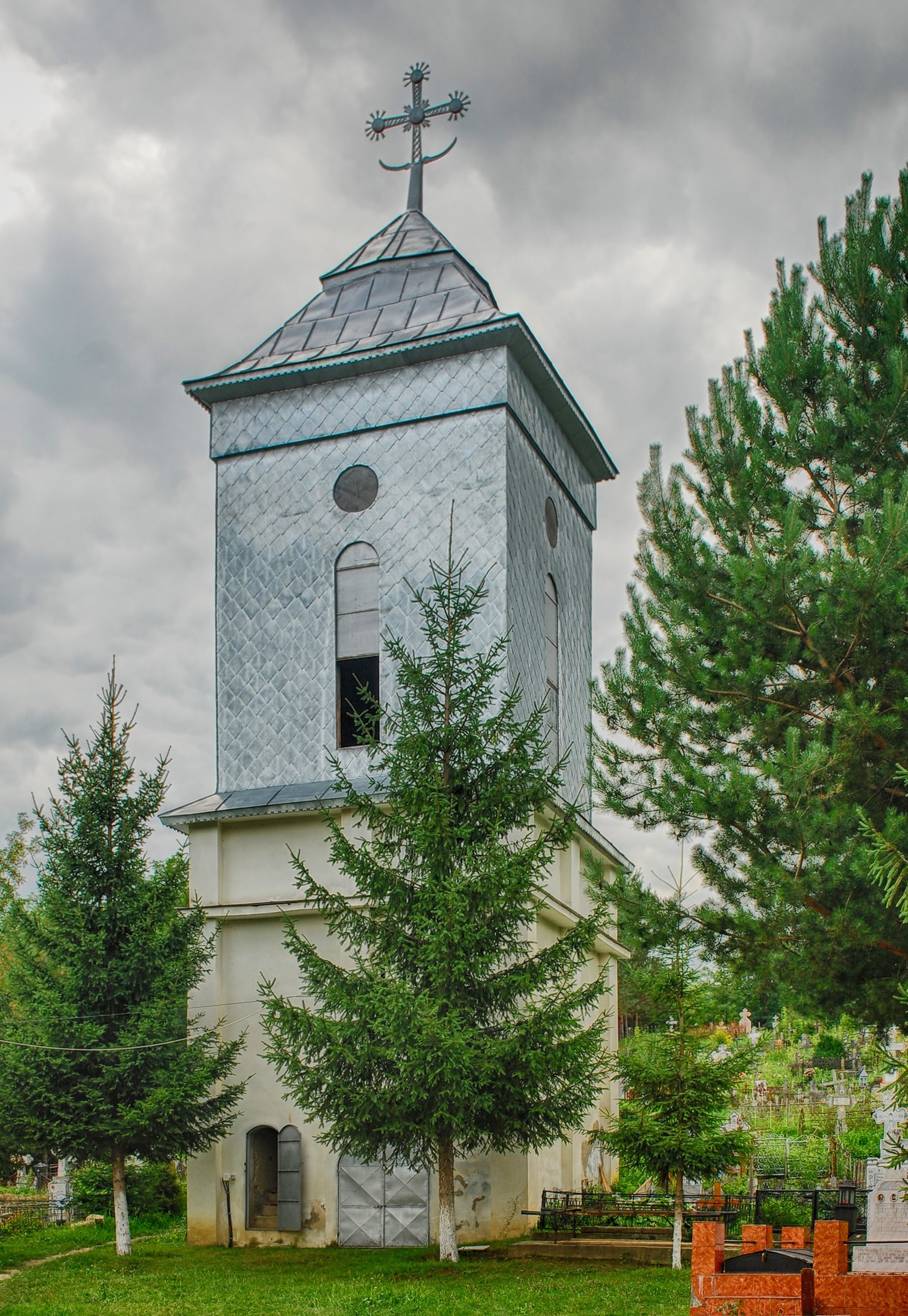 Belfry of St. Nicholas' church of the former Vintilă Vodă monastery in Vintilă Vodă, Buzău County, RomaniaRomână: Clopotnița bisericii „Sfântul Nicolae” de la fosta mănăstire Vintilă Vodă, județul Buzău, România 03